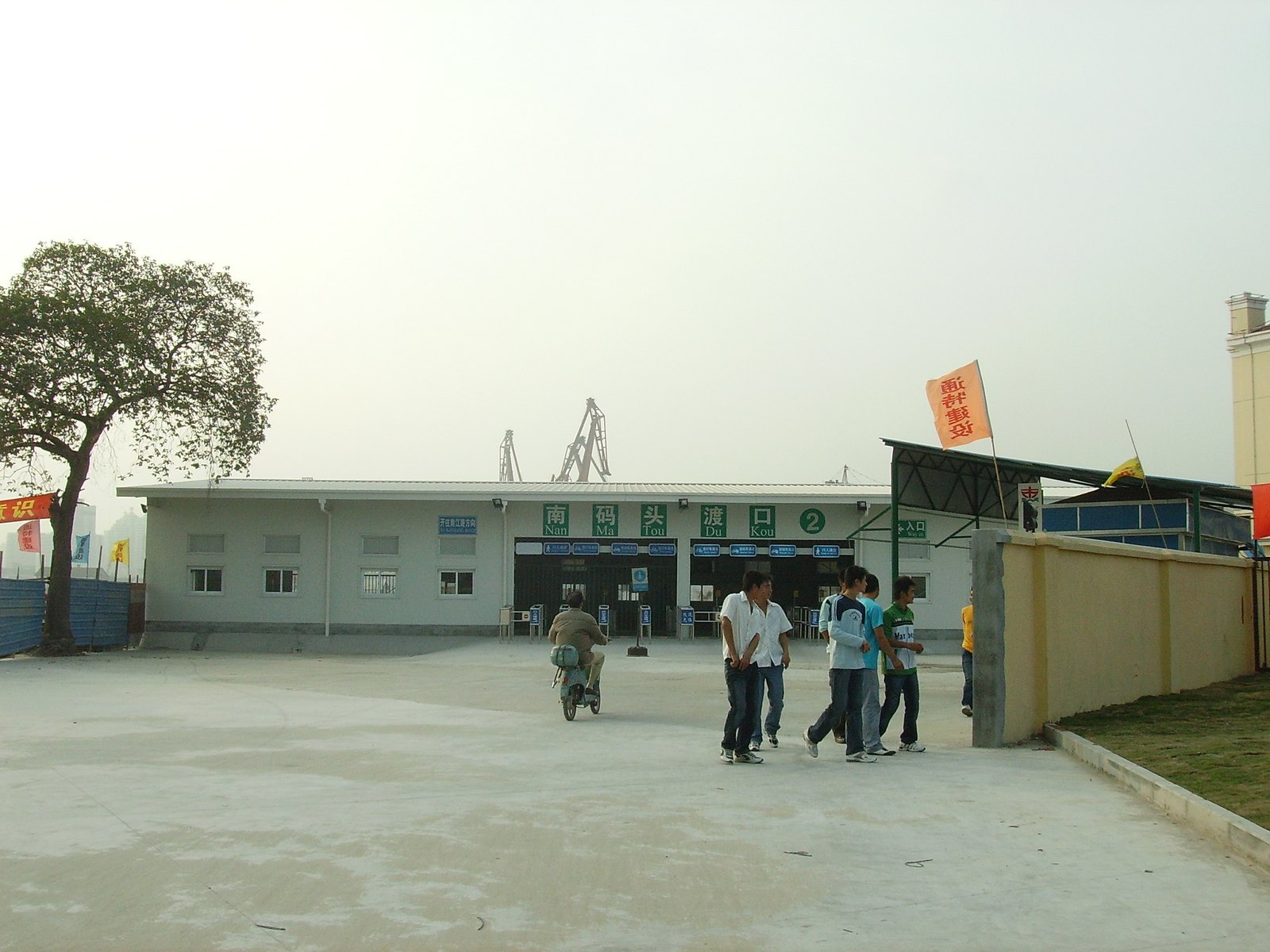 Nanmatou Rd No.2 Ferry